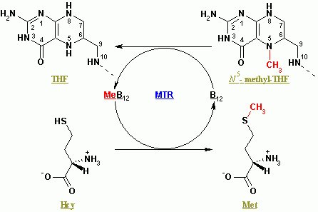 User:BorisTM/ImageInfo